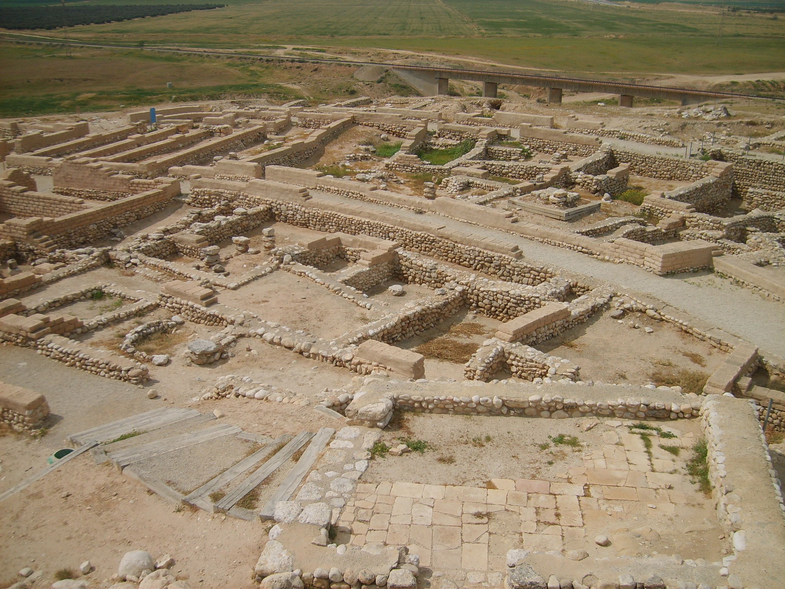 Tel Be'er Sheva excavations, view towards south.